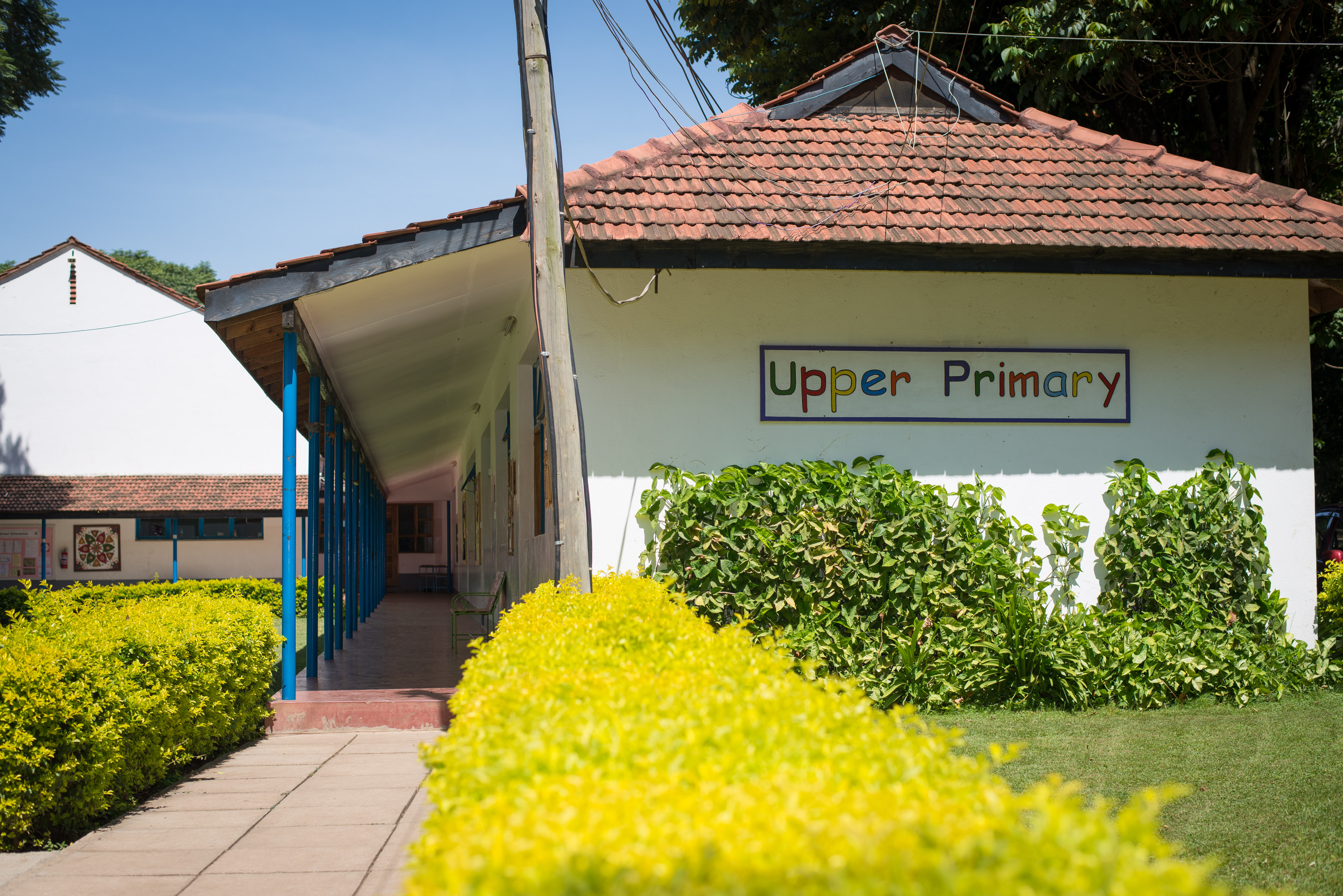 SCIS- Primary School